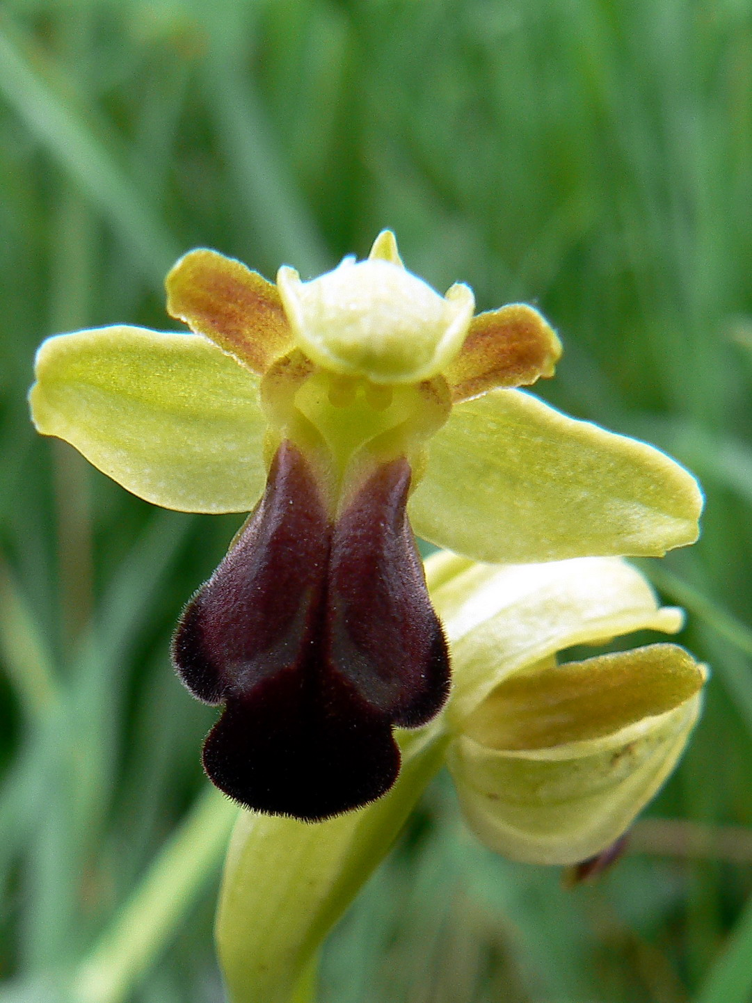 Ophrys sulcata, Causses, France